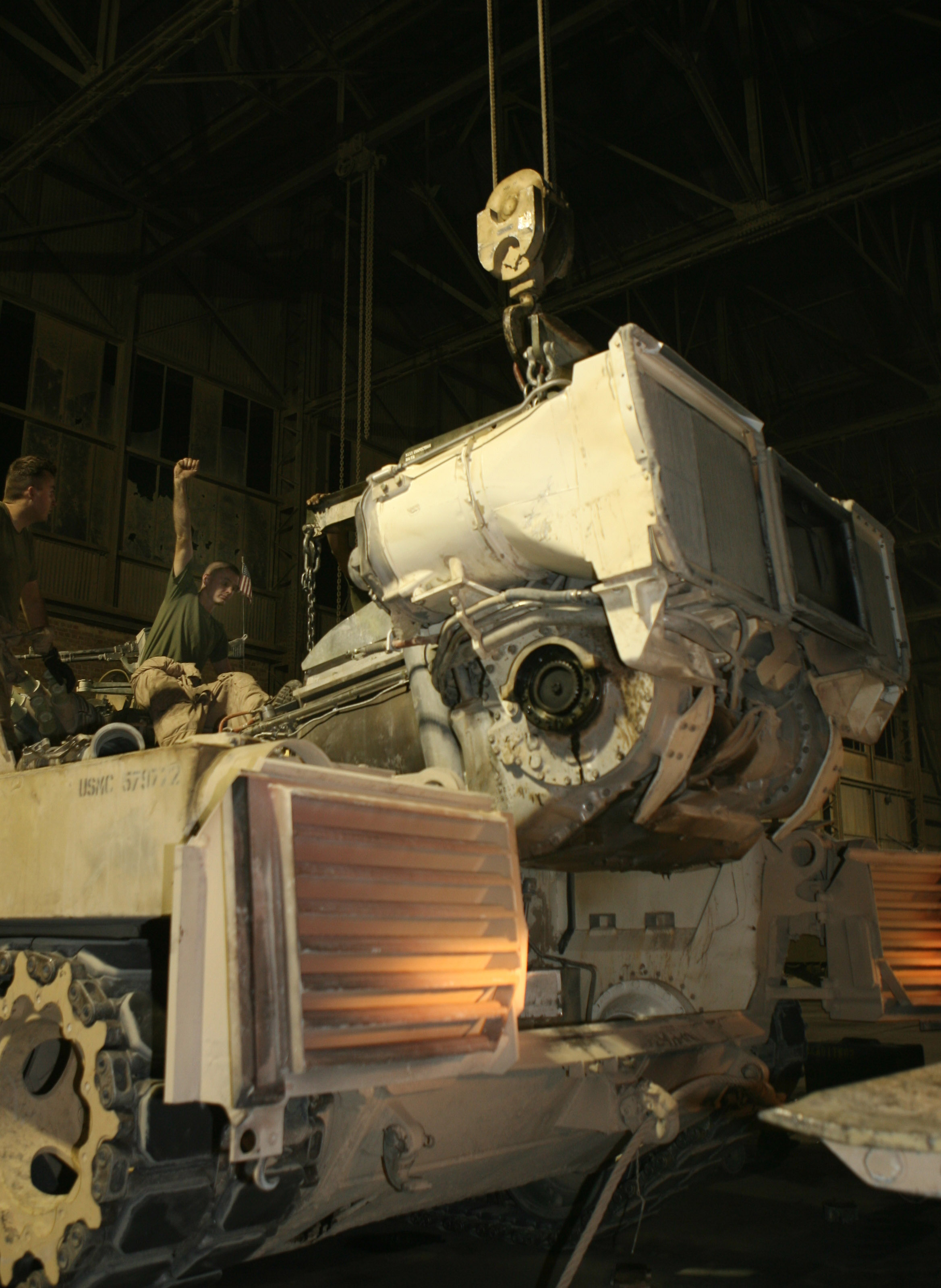 Change of gas turbine for tank M1 Abrams in field conditions.